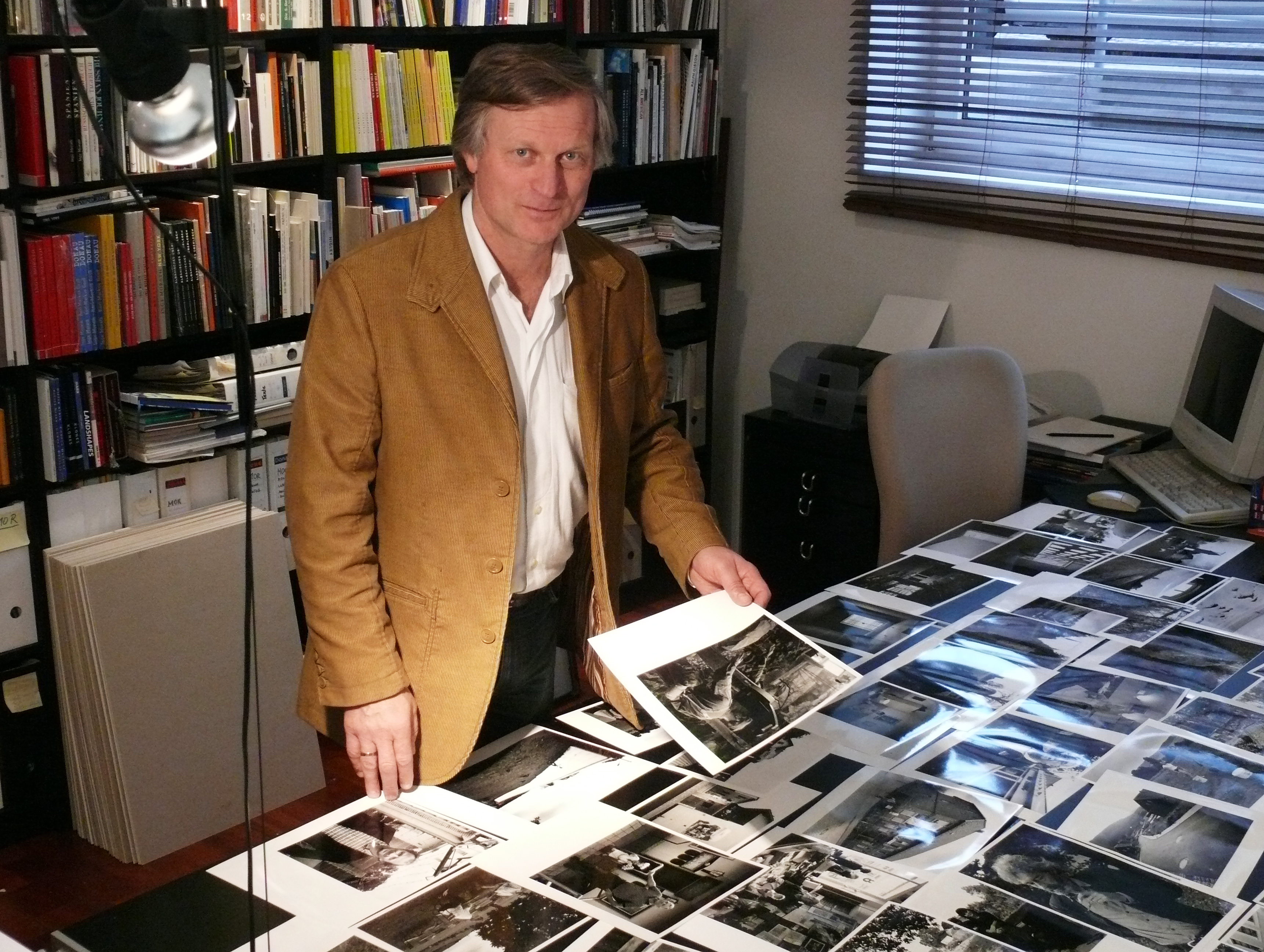 portrait of Kurt Kaindl, taken by photographer Walter Spielmann